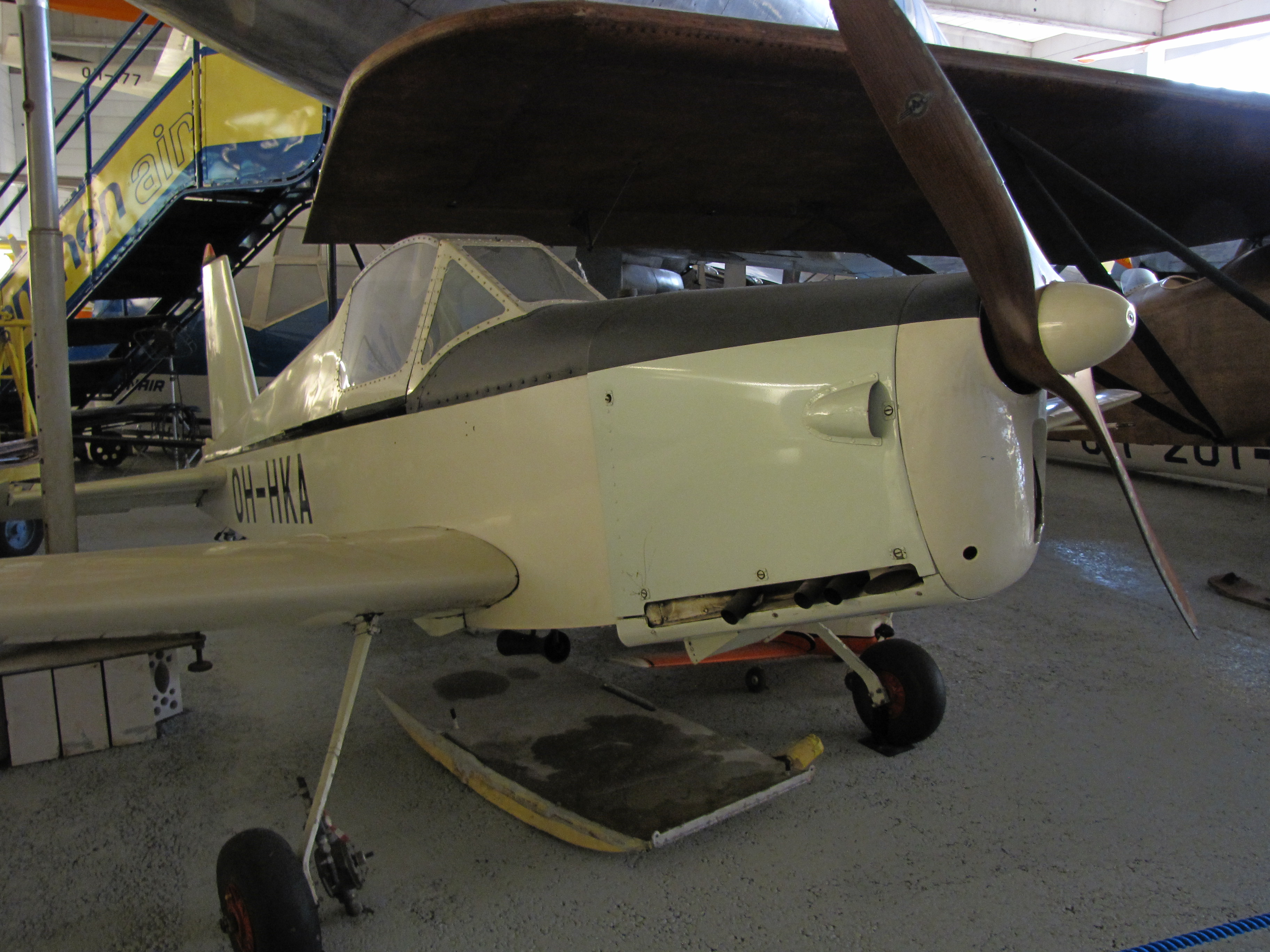 Heinonen HK-1 "Keltiäinen" aircraft in Finnish Aviation Museum. Designed and built by Juhani Heinonen in 1954. This aircraft achieved a world record in FAI class C-1 A (single engine land aircraft, takeoff weight below 500 kg) in 1957 by flying from Madrid to Turku without landing in 17 hours 1 minute. The record was not broken until 1984 by Garu Hertzler.